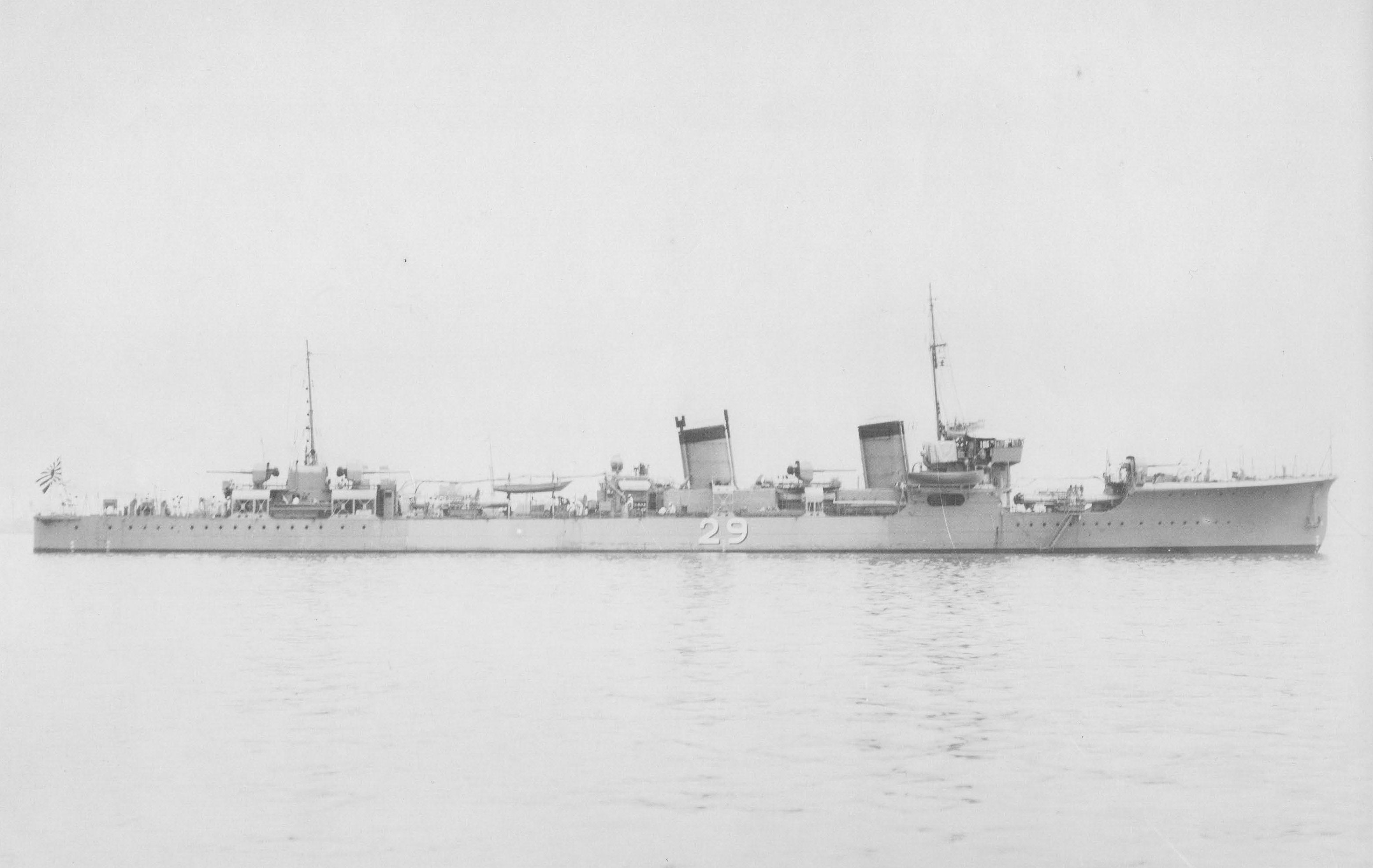 Imperial Japanese Navy destroyer Fumizuki, the second Japanese warship to bear that name